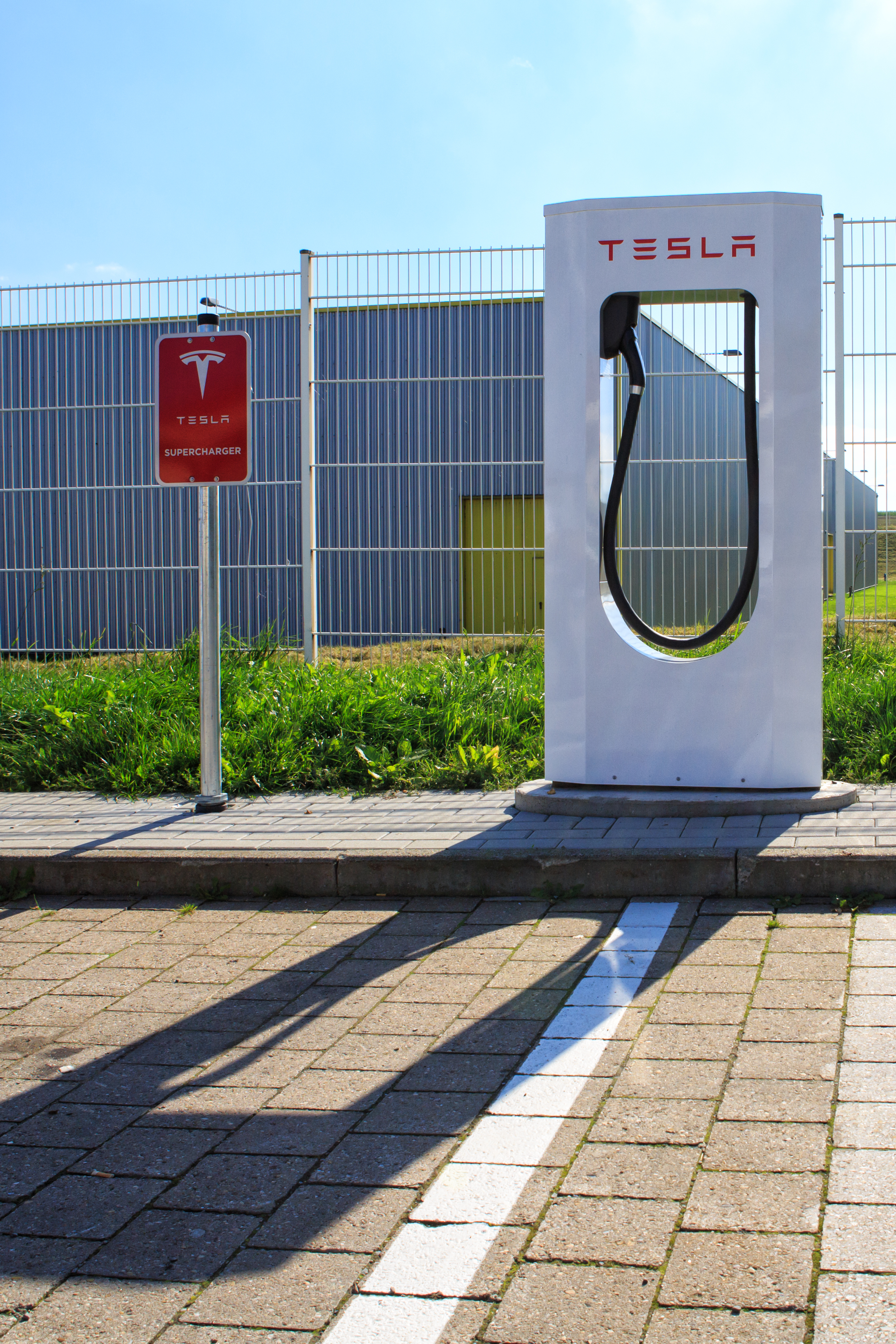 Tesla Supercharger Stations in Germany at the A9